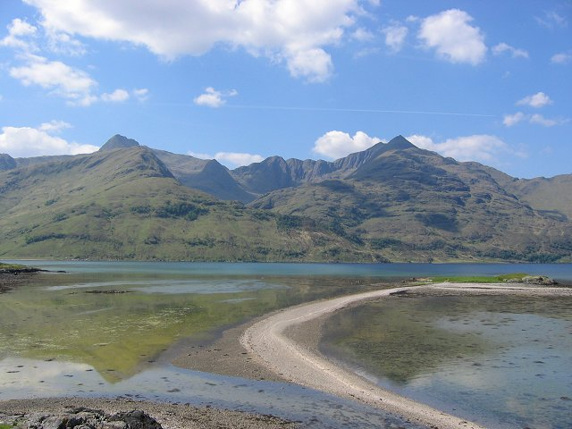 Ladhar Bheinn (1020m) across Barrisdale Bay from Eileann Choinneach, near Barisdale's boat landing spot.